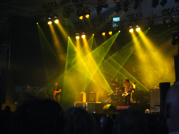 We Are Scientists at Pukkelpop 2006